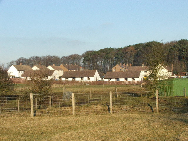 Scots Gap Village. The small hamlet of Scots Gap.